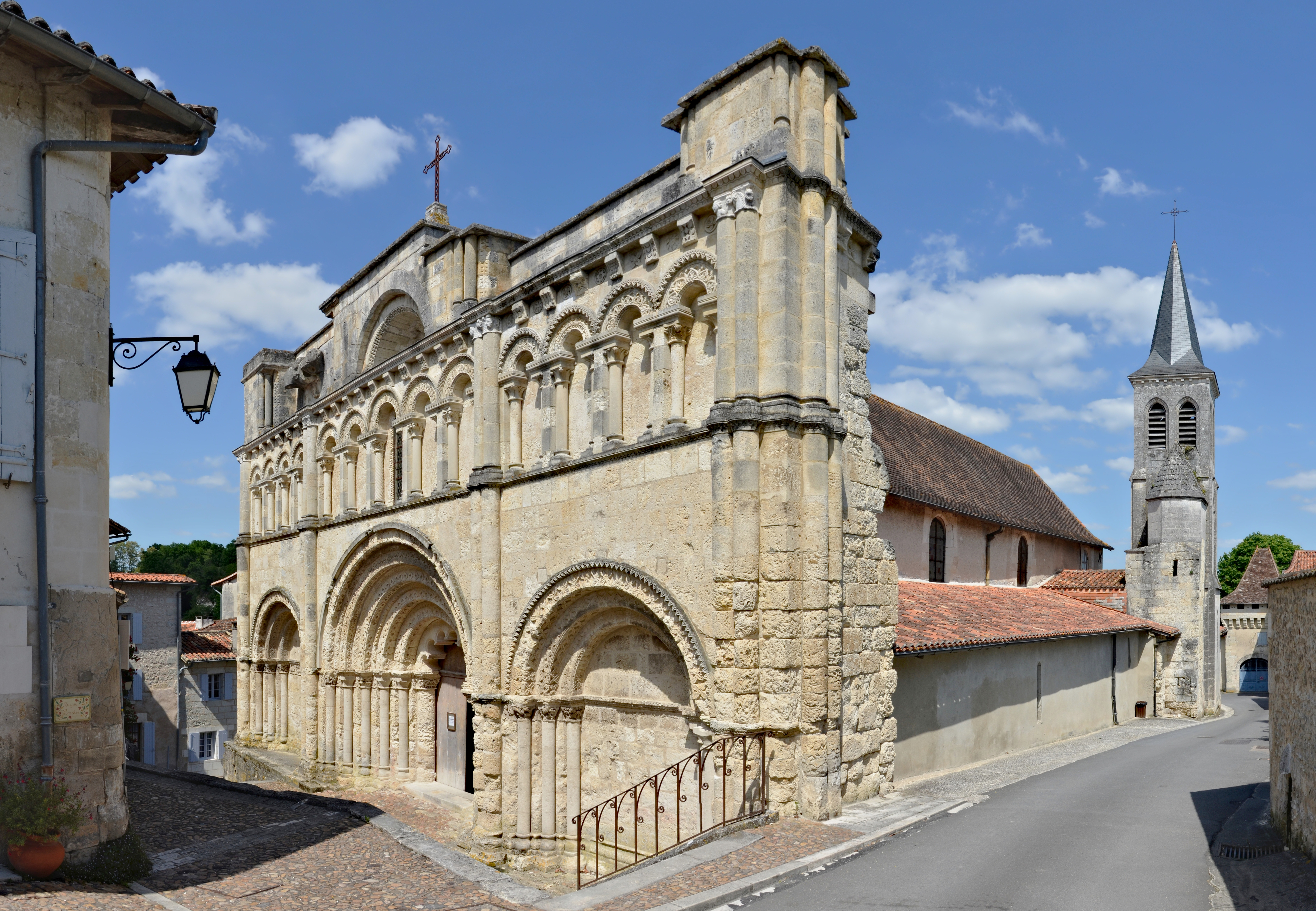 Romanesque church of Aubeterre (12th century), exterior. Charente, France.